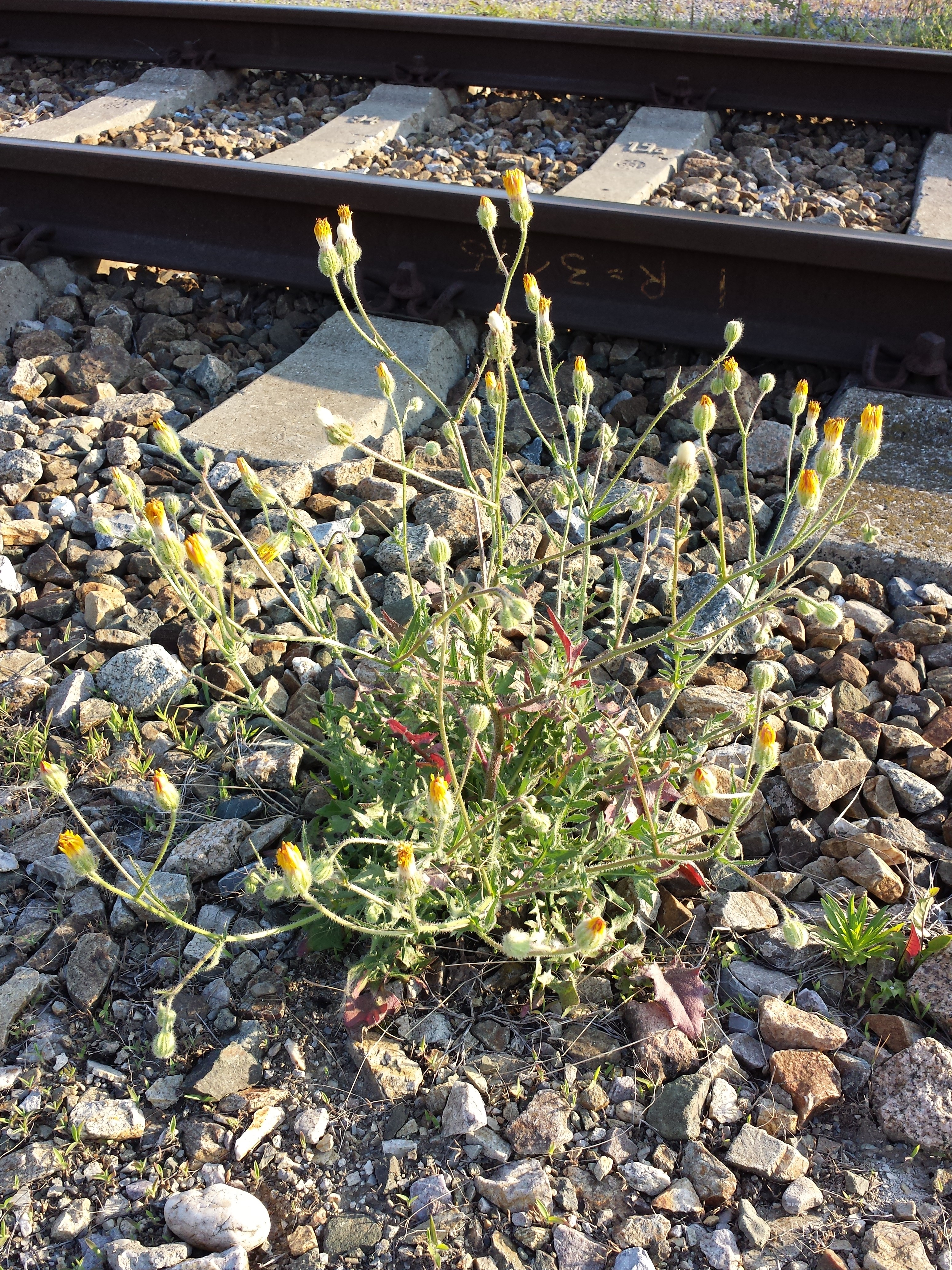 Habitus Taxon: Crepis foetida subsp. rhoeadifolia (sensu Fischer et al. EfÖLS 2008) Location: northwestern railway near Jedlersdorf, Vienna-Floridsdorf - ca. 170 m a.s.l. Habitat: ballast